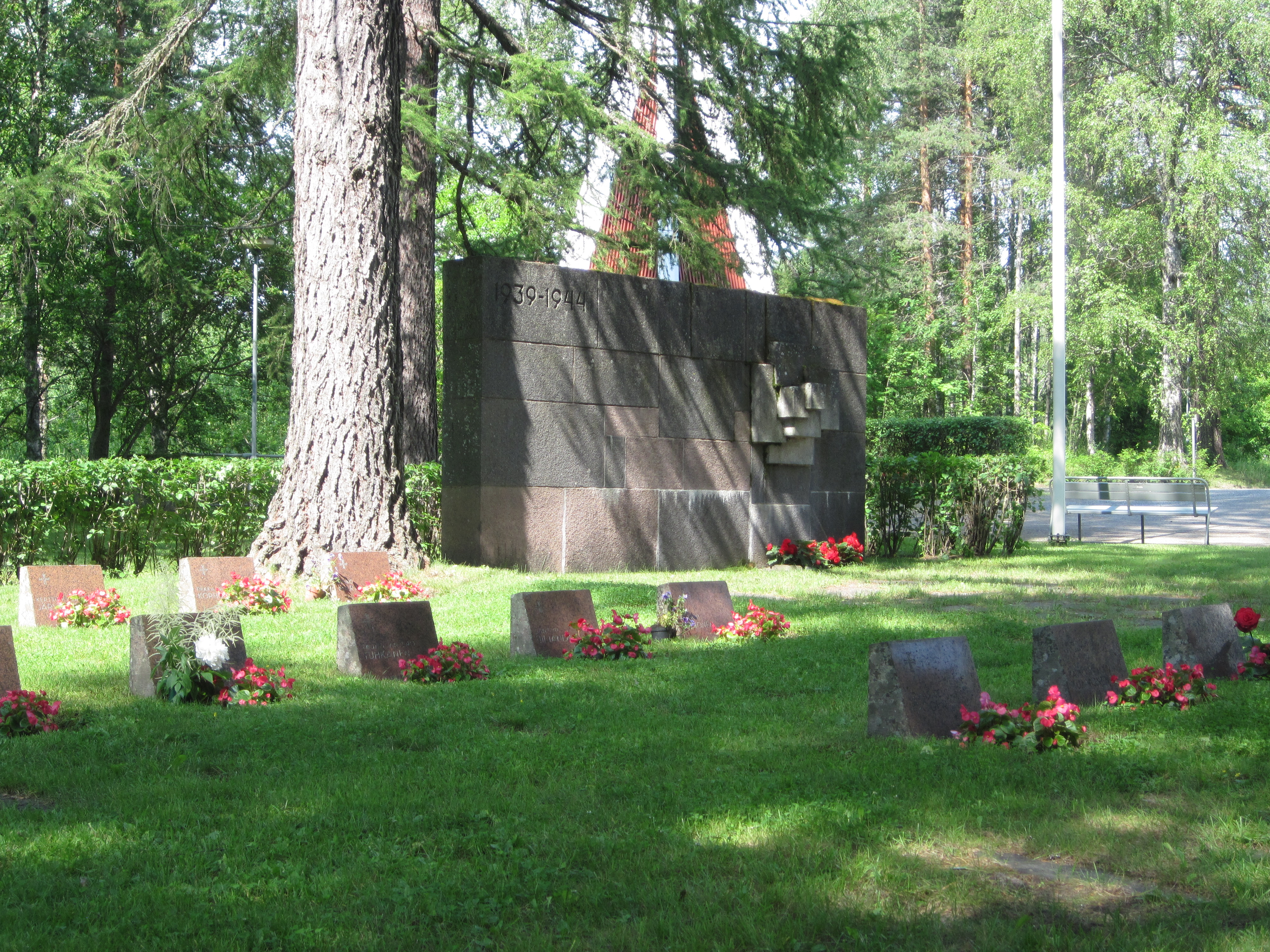 Military cemetary at church in Vehmasmäki, Finland